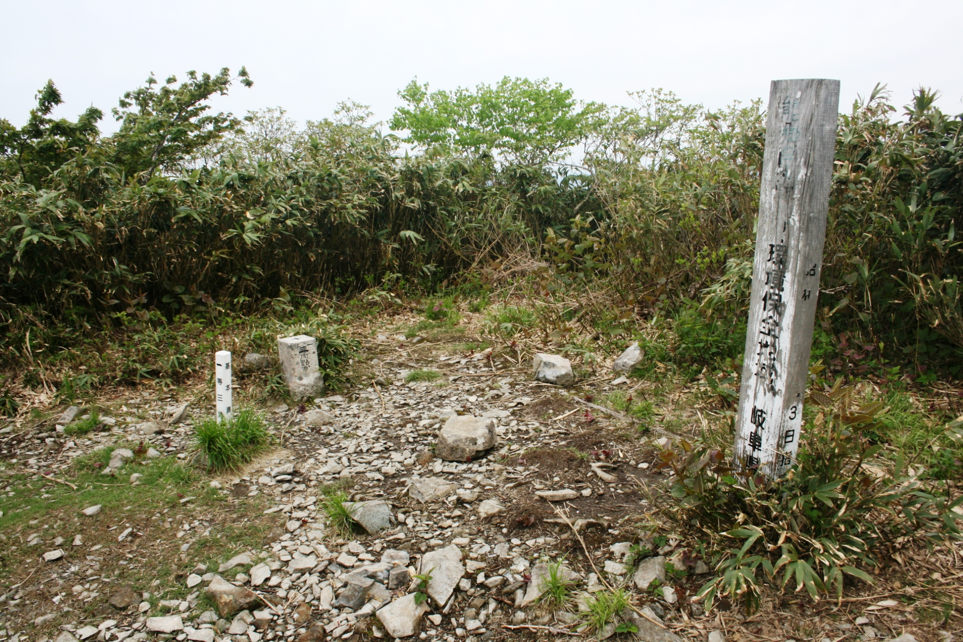 Triangulation station in Mount Nōgōhaku